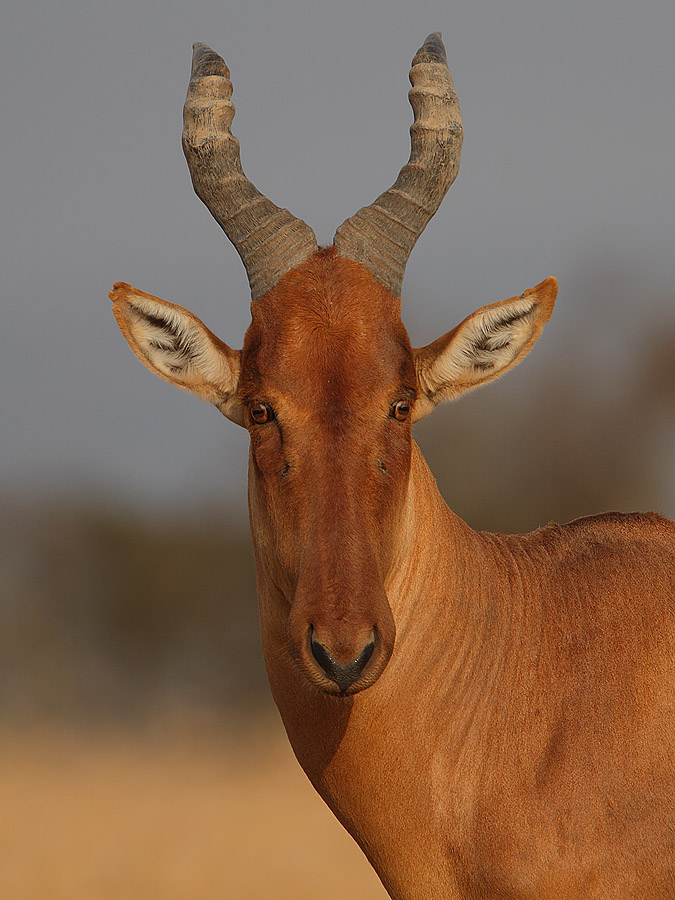 This rare subspecies of Hartebeest is now classified as endangered being found in Kenya's Laikipia plateau, with small populations also found in Uganda and Western Chad.